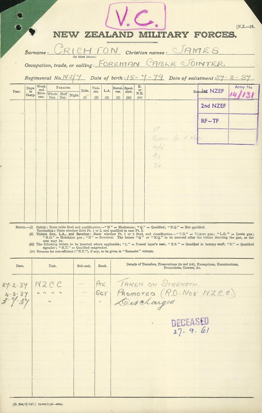 Personnel file (1914 - 1918) of James Crichton. Served during WWI in the New Zealand Army. Recipient of the Victora Cross (Gallantry Medal). Archives New Zealand Reference: AABK 18806 W5602 1